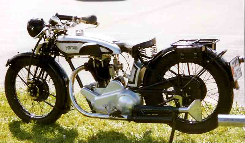 Norton CS1 1929